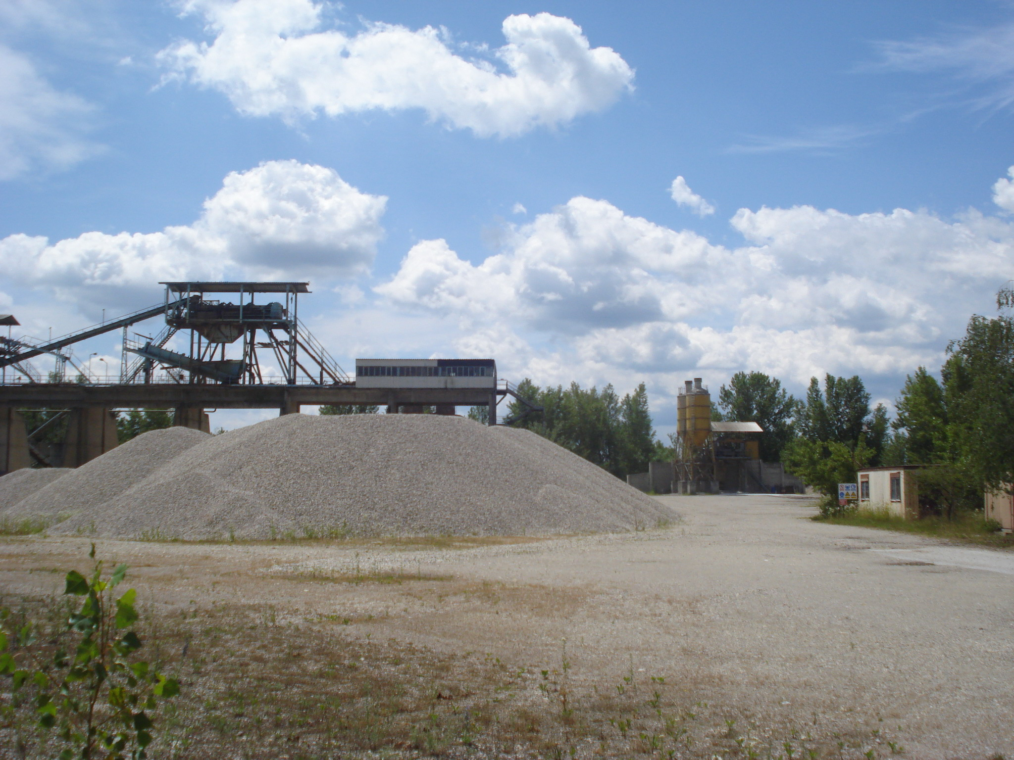 Gravel plant for sand and gravel extraction in Ivanovec, Medjimurje County, Croatia - east view